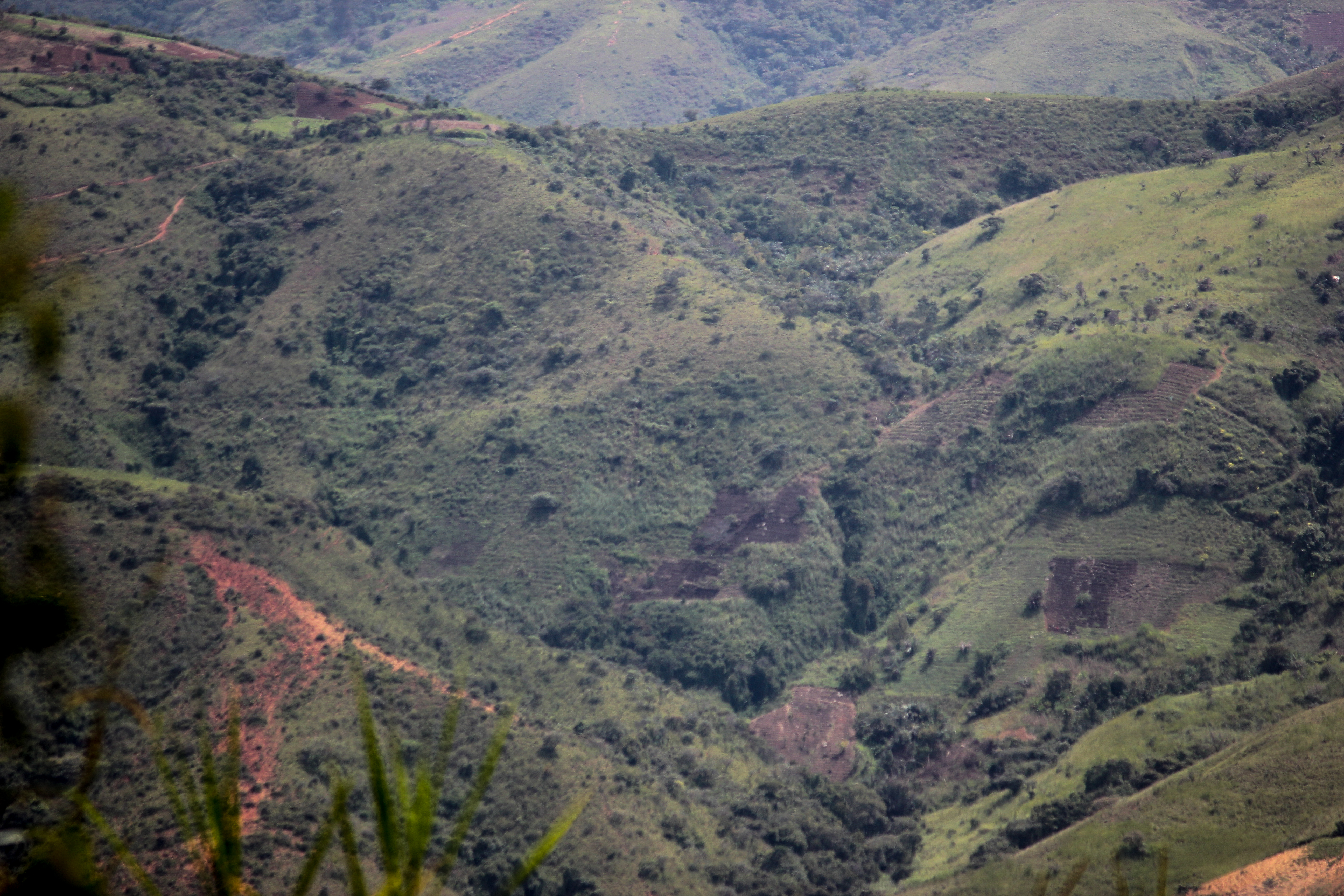 Highlands of Ngarbuh in the Donga-Mantung department of the North West region of cameroon.